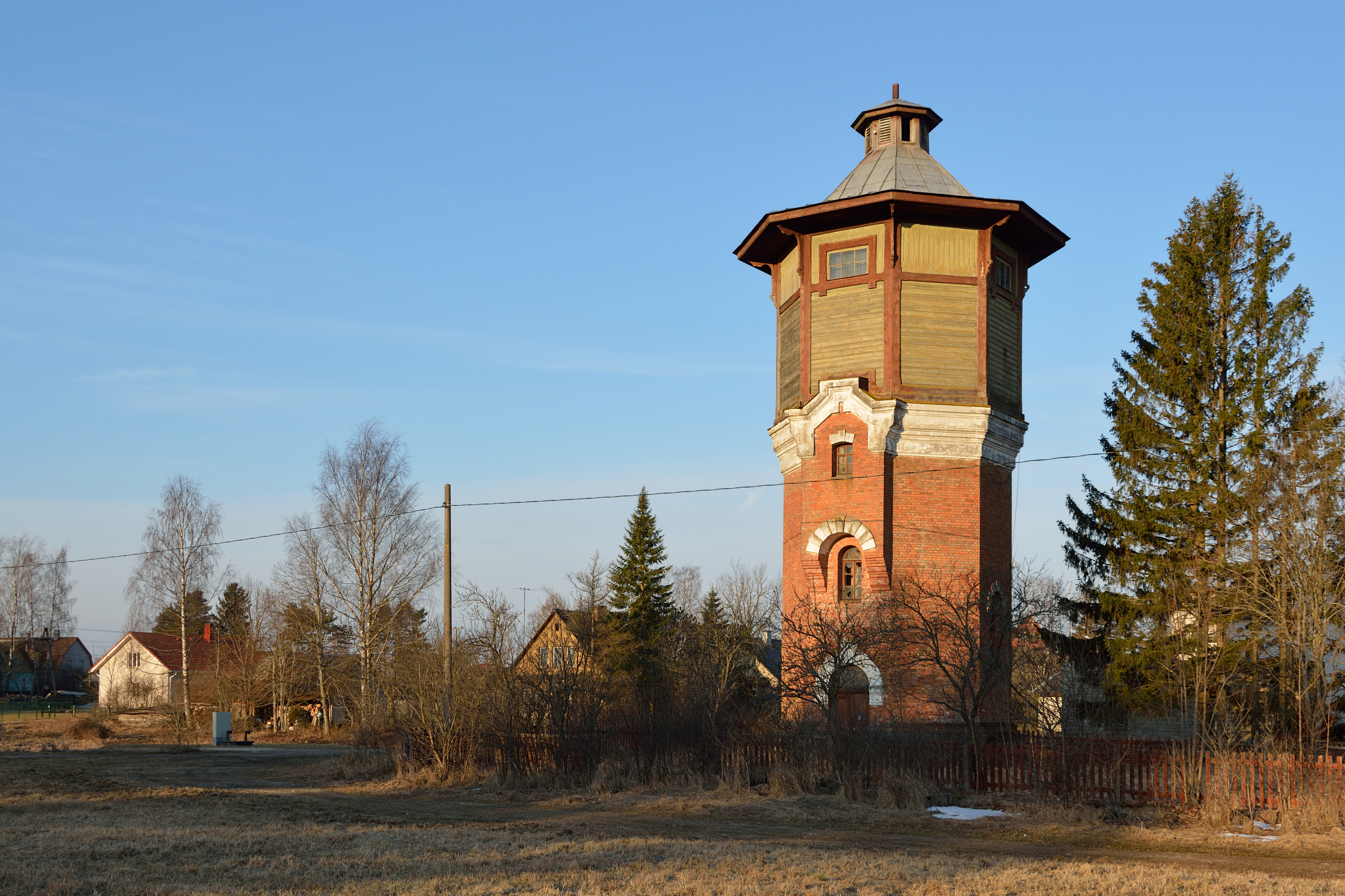 Riisipere railway station water tower, built in 1904